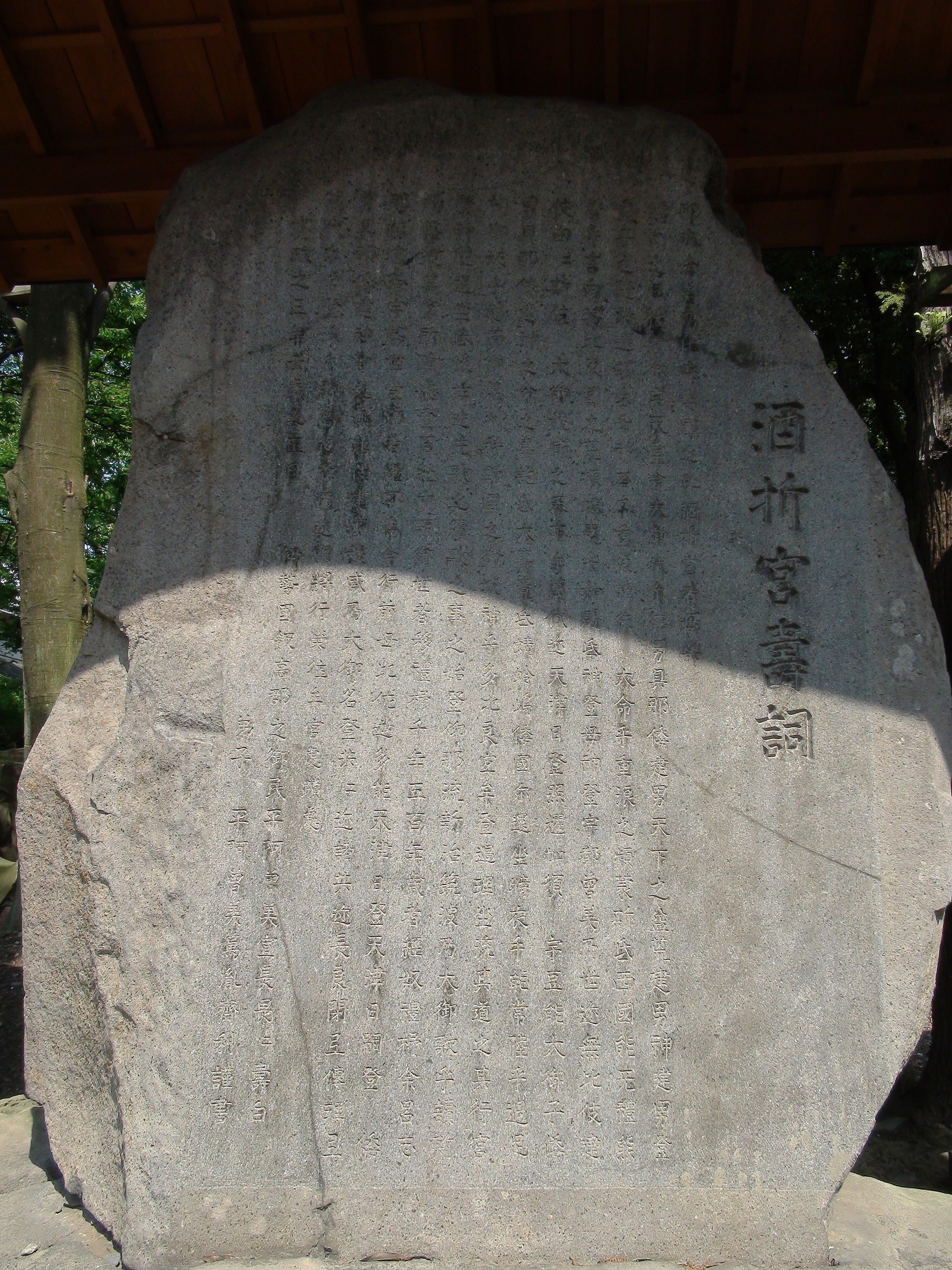 Sakaorimiya Shrine epitaph